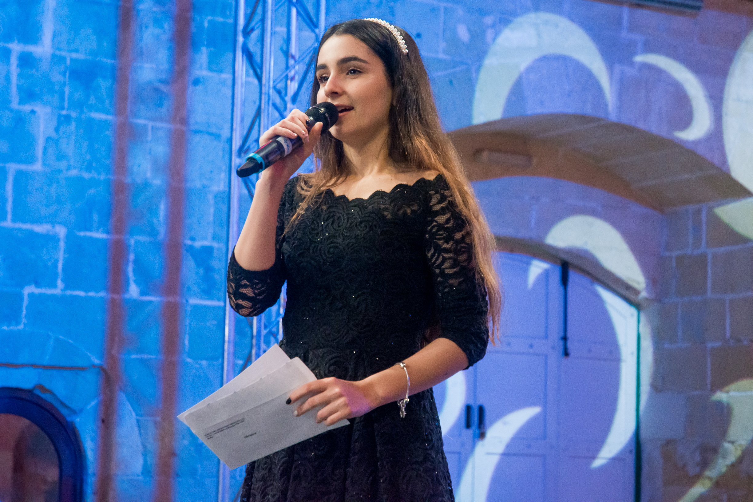 JESC 2016 spokesperson of Ukraine – Anna Trincher